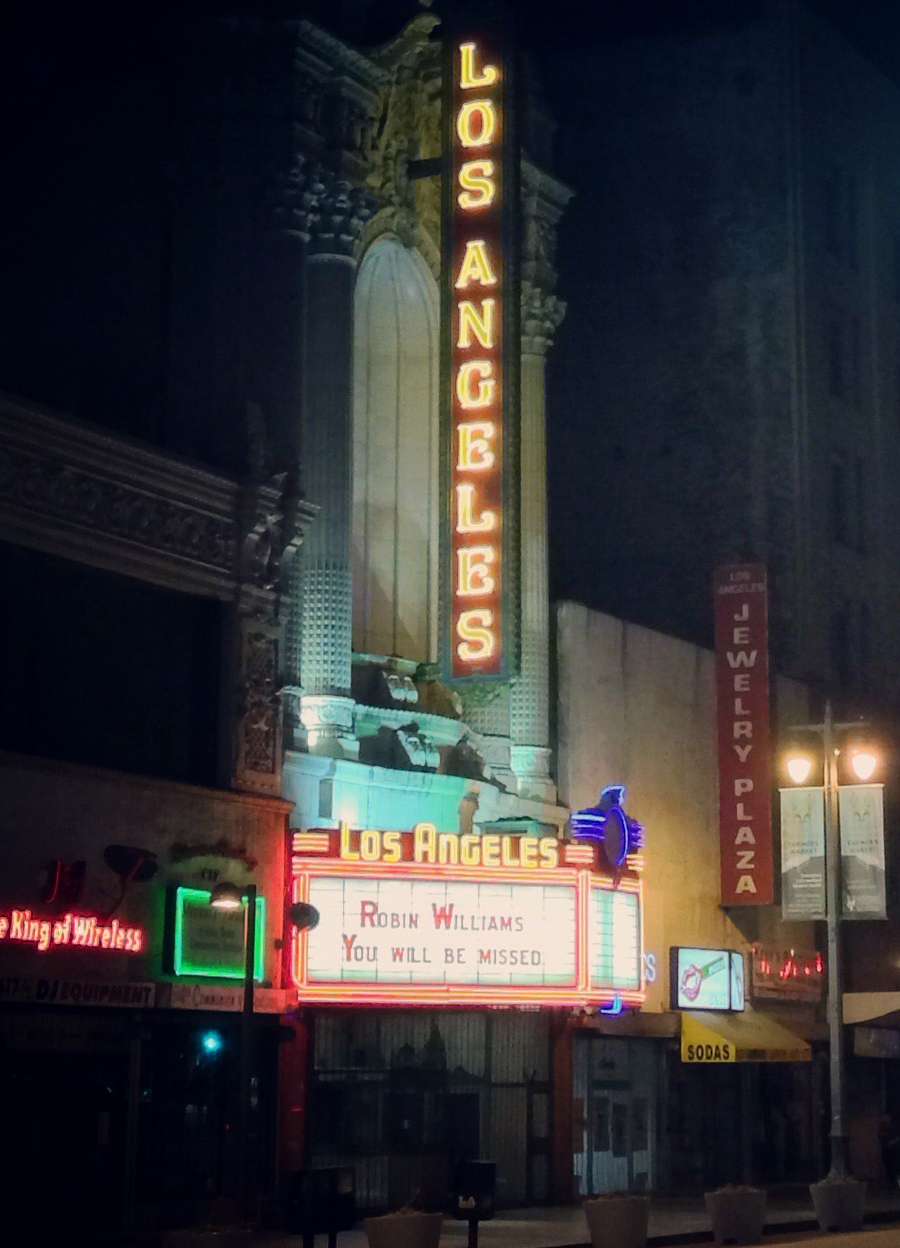 Los Angeles Theatre memorializes Robin Williams on their marquee